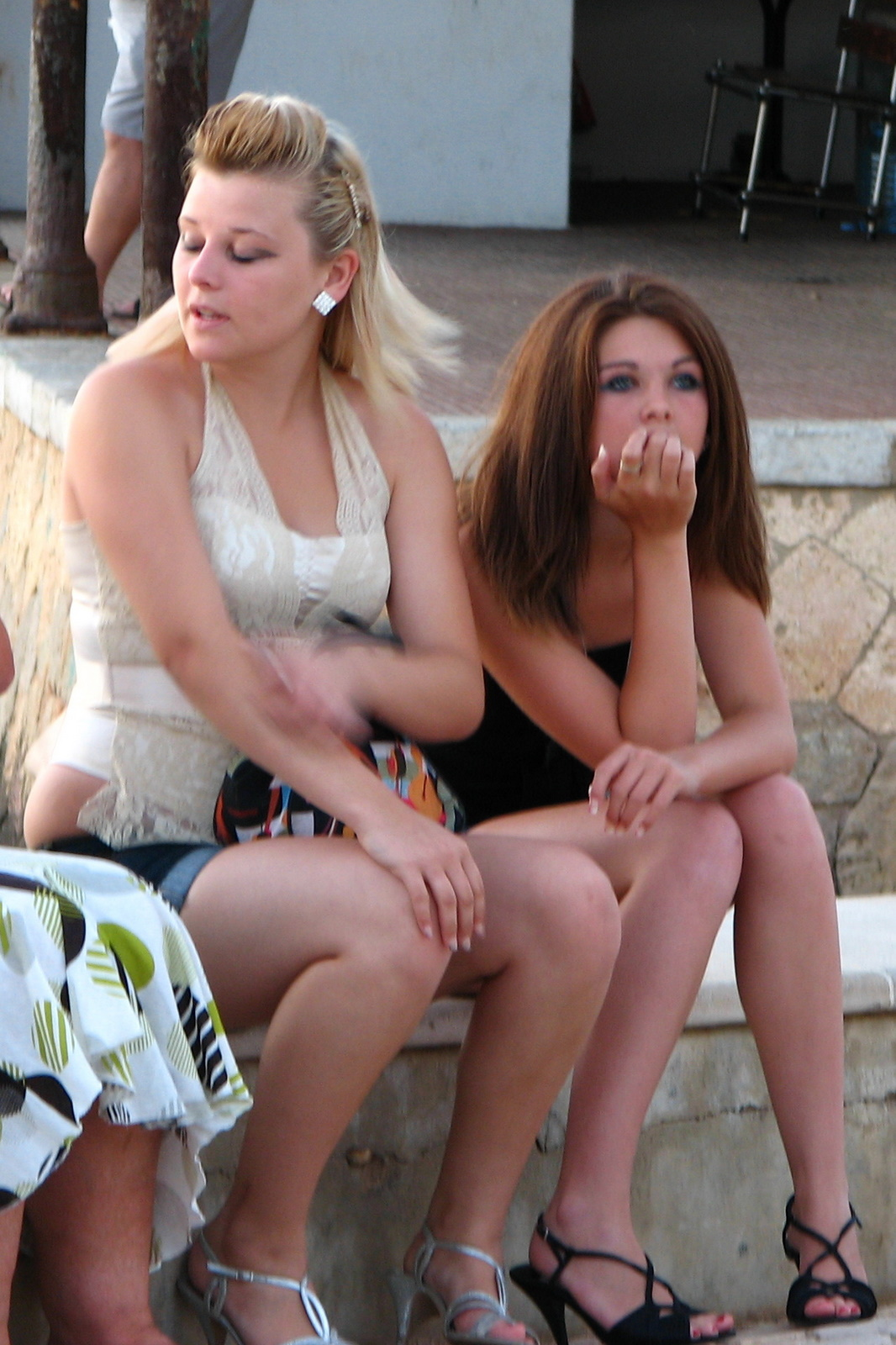 Women on holiday - Alvor - The Algarve, Portugal